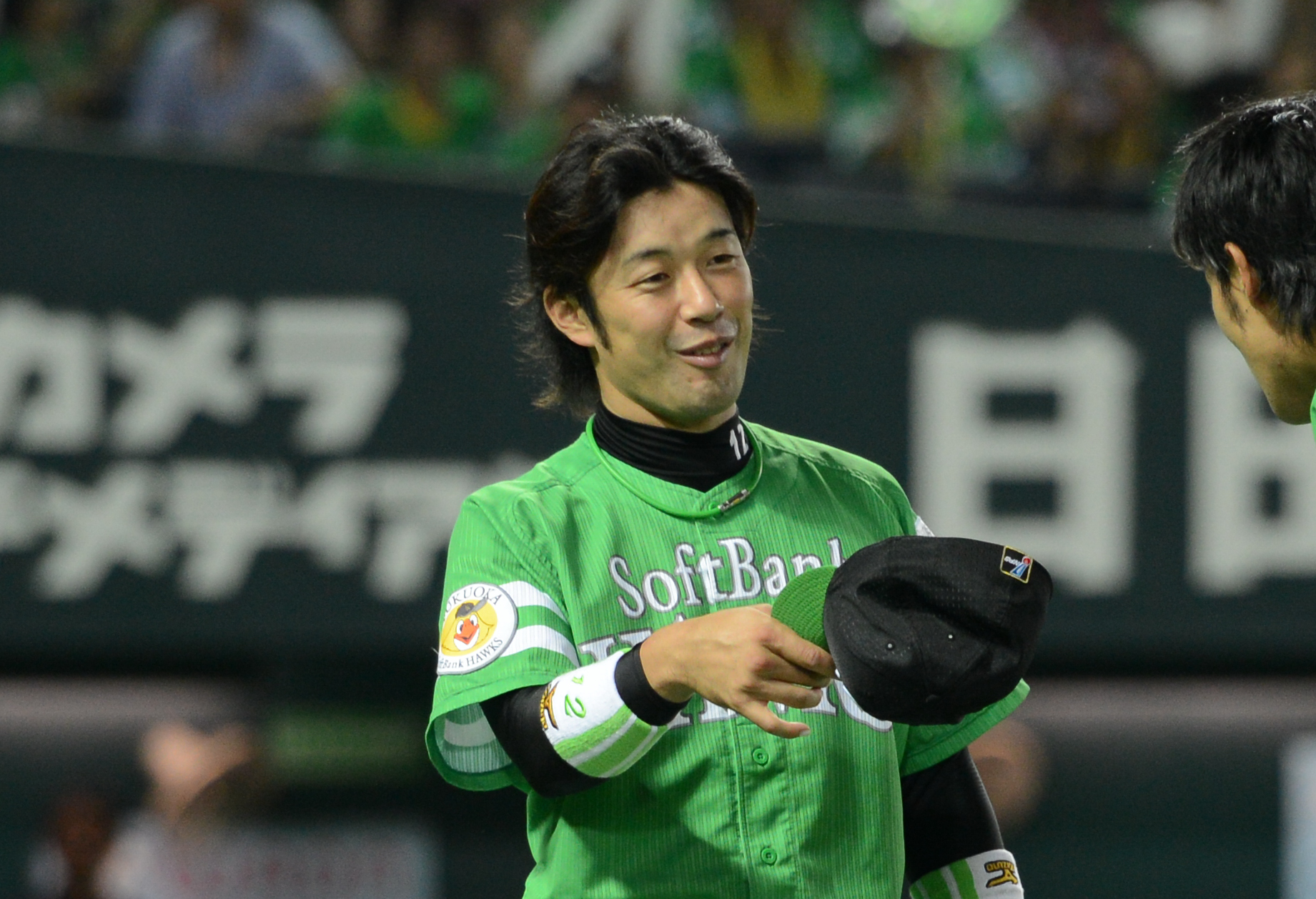 Hiroaki Takaya, catcher of the Fukuoka SoftBank Hawks, at Fukuoka Dome.